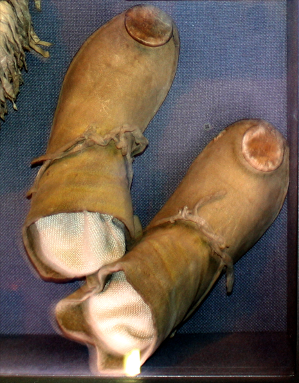 Chiricahua N'de (Apache) beaded moccasins, ca. 1890, Oklahoma, on loan from the National Museum of the American Indian to the Oklahoma History Center